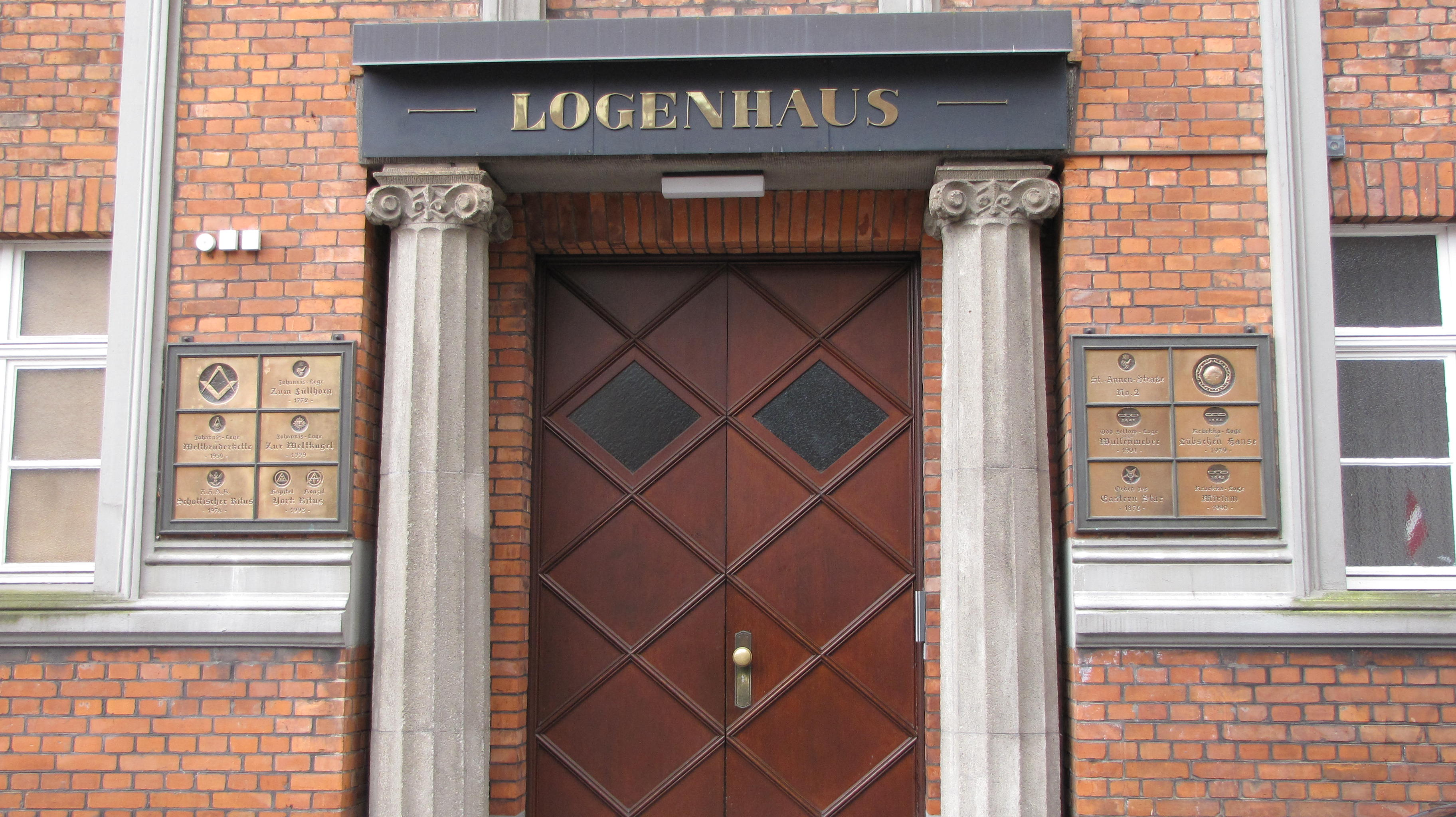 Door of Logenhaus Lübeck